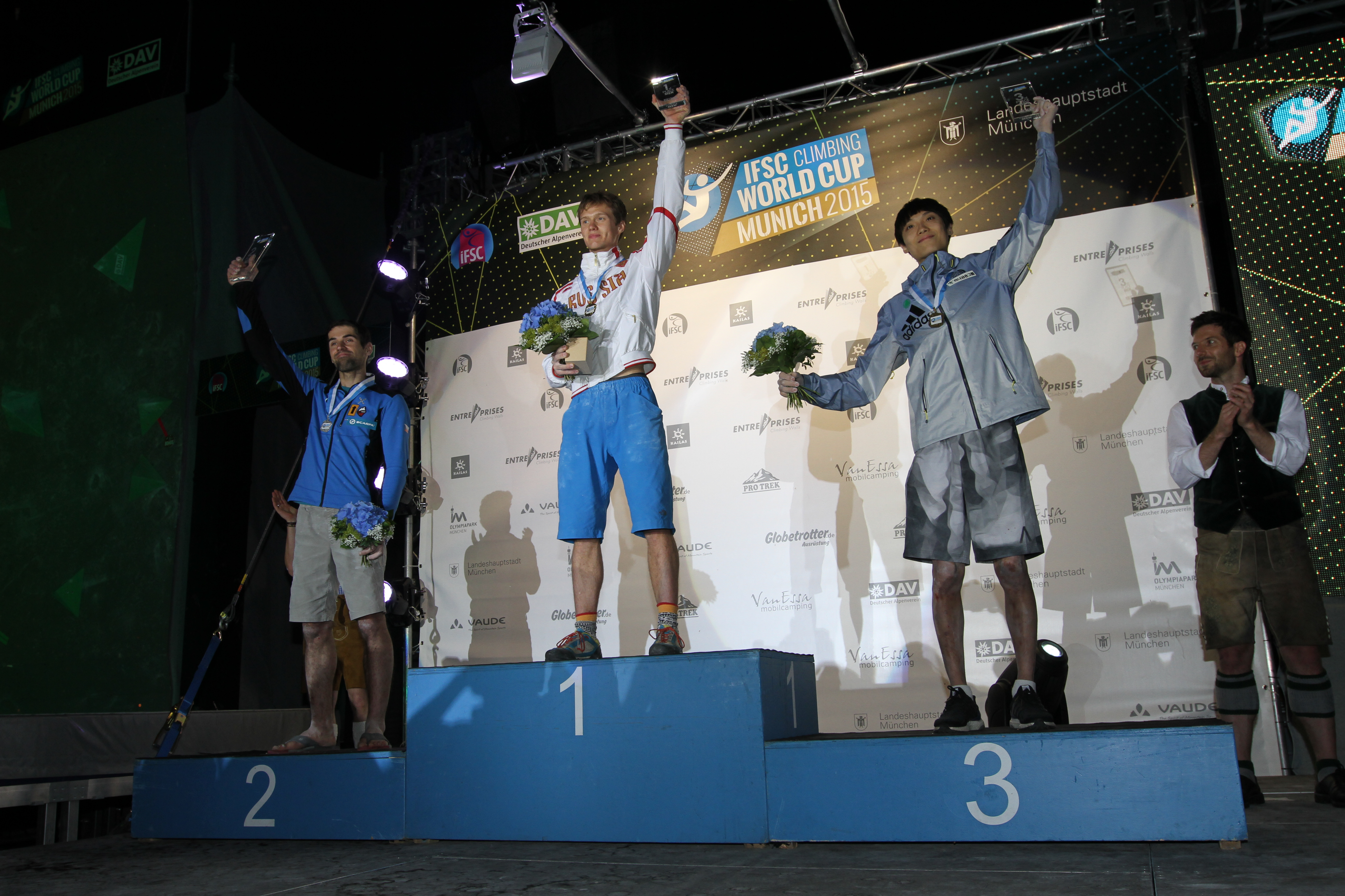 IFSC Boulder Worldcup, Munich 2015. Winners of the men's event: 1: Rubtsov, Alexey (RUS), 2: Stranik, Martin (CZE), 3: Chon, Jongwon (KOR)